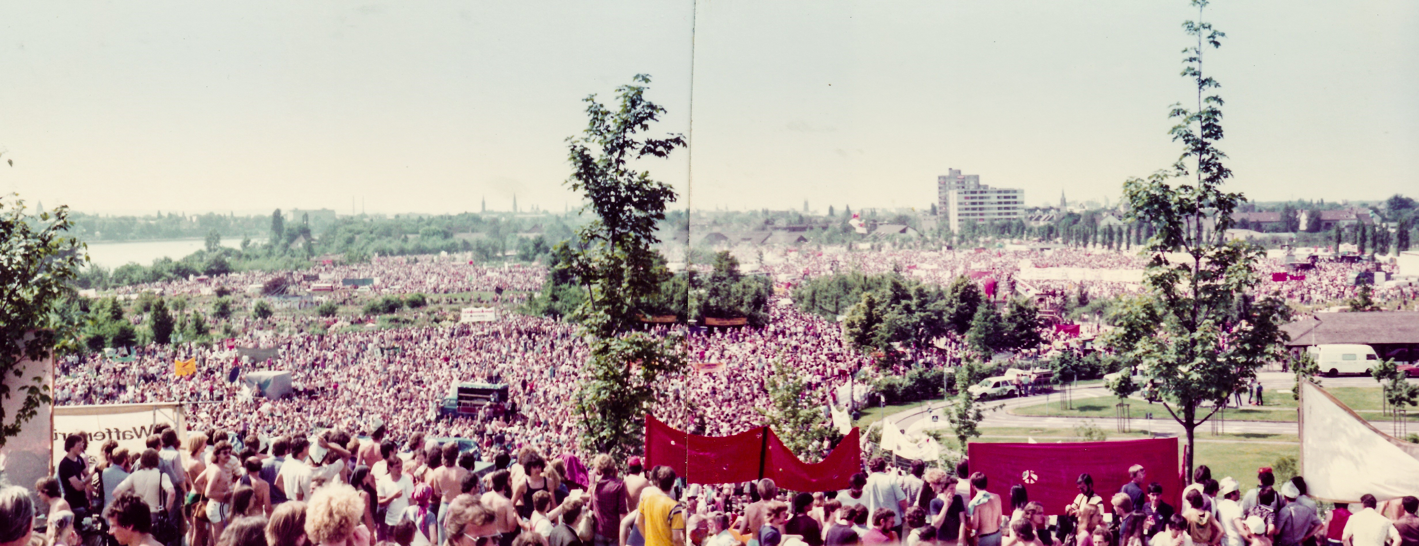 Demonstration for peace in Germany on the 10th Juni 1982 in Bonn. View on the rhine wetlands.